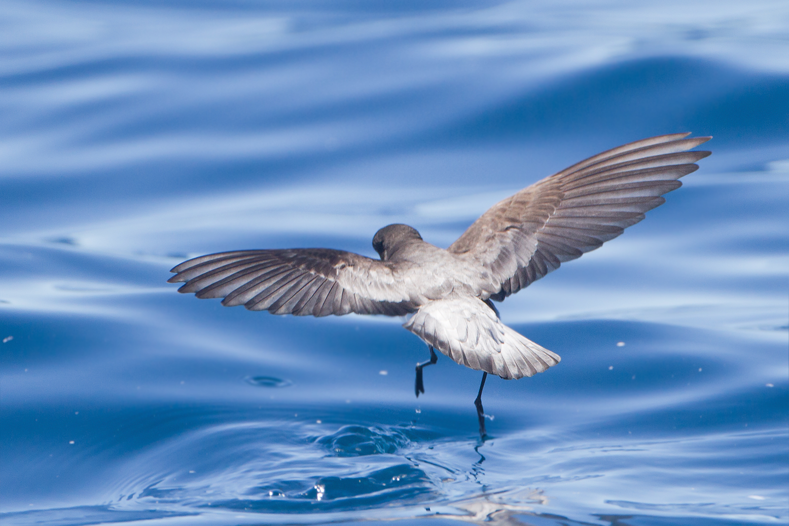 Grey-backed Storm Petrel (Garrodia nereis), East of the Tasman Peninsula, Tasmania, Australia